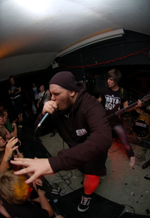 Annotations Of An Autopsy live in Barnardtown in November 2007.